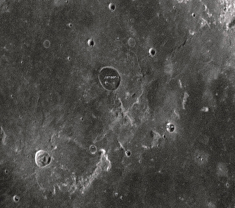 Jansen lunar crater as seen from Earth with satellite craters labeled